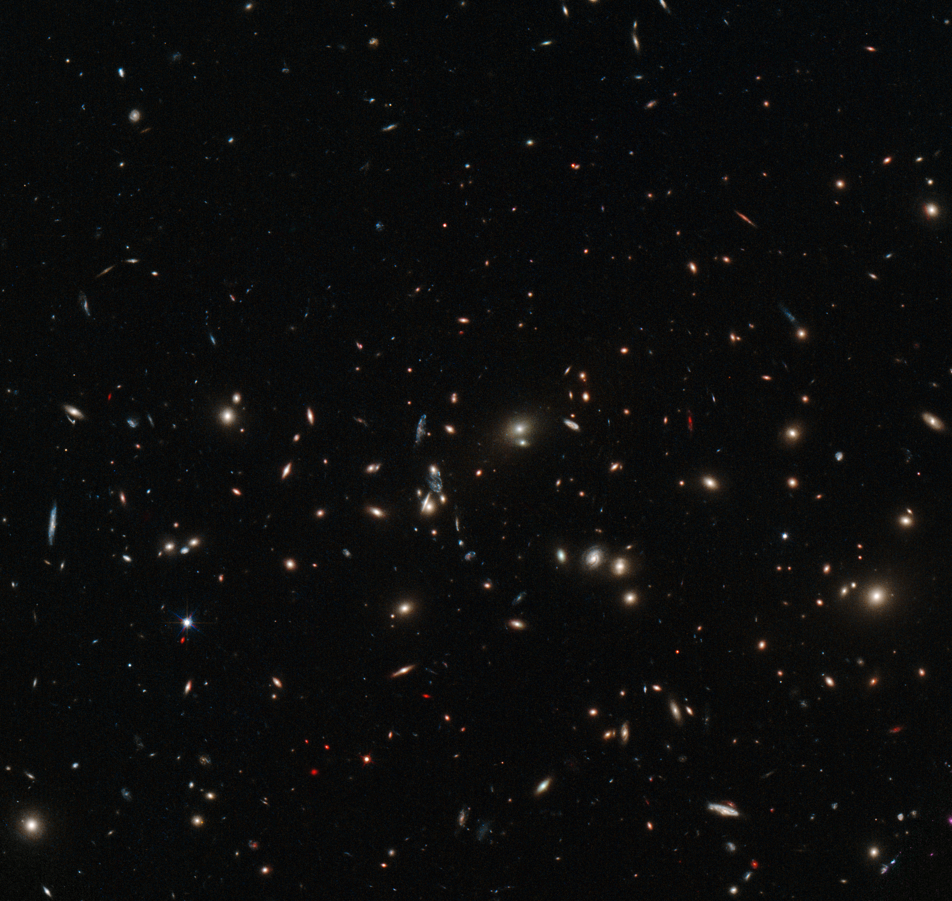 This image shows the massive galaxy cluster MACS J0152.5-2852, captured in detail by the NASA/ESA Hubble Space Telescope's Wide Field Camera 3. Almost every object seen here is a galaxy, each containing billions of stars. Galaxies are not usually randomly distributed in space, but instead appear in concentrations of hundreds, held together by their mutual gravity. Elliptical galaxies, like the yellow fuzzy objects seen in the image, are most often found close to the centres of galaxy clusters, while spirals, such as the bluish patches, are usually found to be further out and more isolated. A version of this image obtained tenth prize in the Hubble's Hidden Treasures image processing competition, entered by contestant Judy Schmidt.